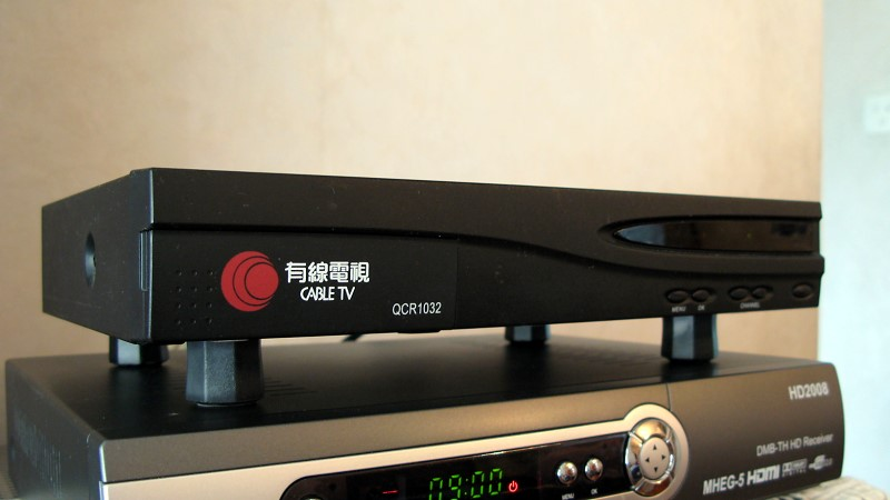 HK Cable TV Settop Box QCR1032